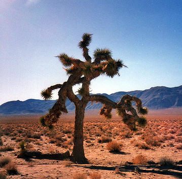 The original Joshua Tree of the U2 Cover. Photo made Dec. 19, 1994